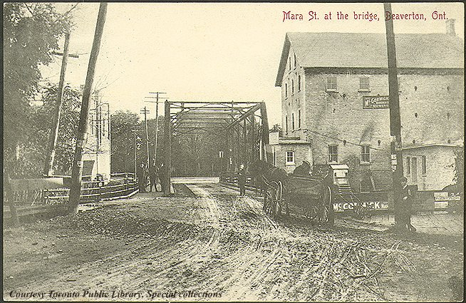 Mary St. at the Bridge, Beaverton, Ontario, Canada Creator: Unknown Date: 1910 Identifier: PC-ON 144 Format: Postcard Rights: Public domain Courtesy: Toronto Public Library You can order order a print or high-resolution copy.